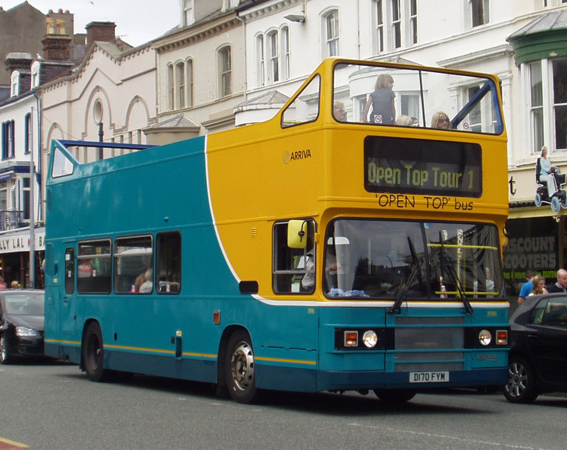 Arriva Buses Wales open top 1986 Leyland Olympian bus D170 FYM in Llandudno